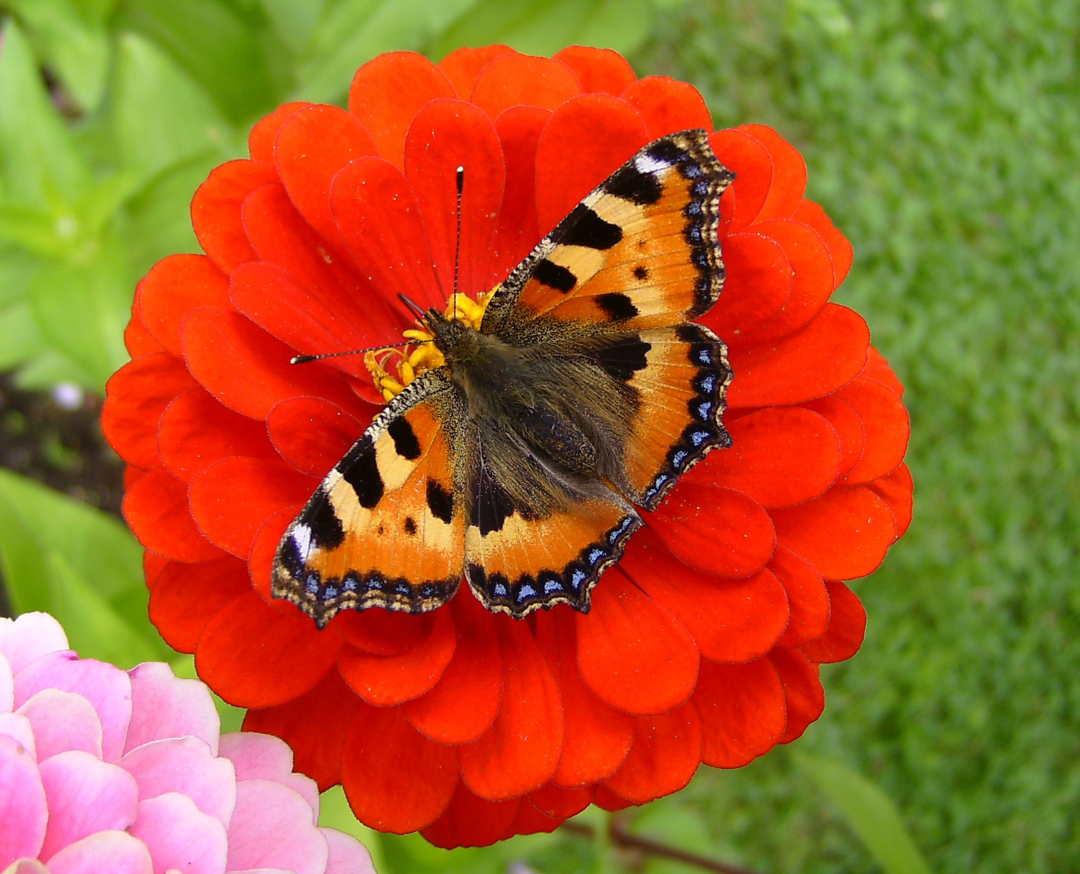 Aglais urticae, Frankfurt am Main, Germany